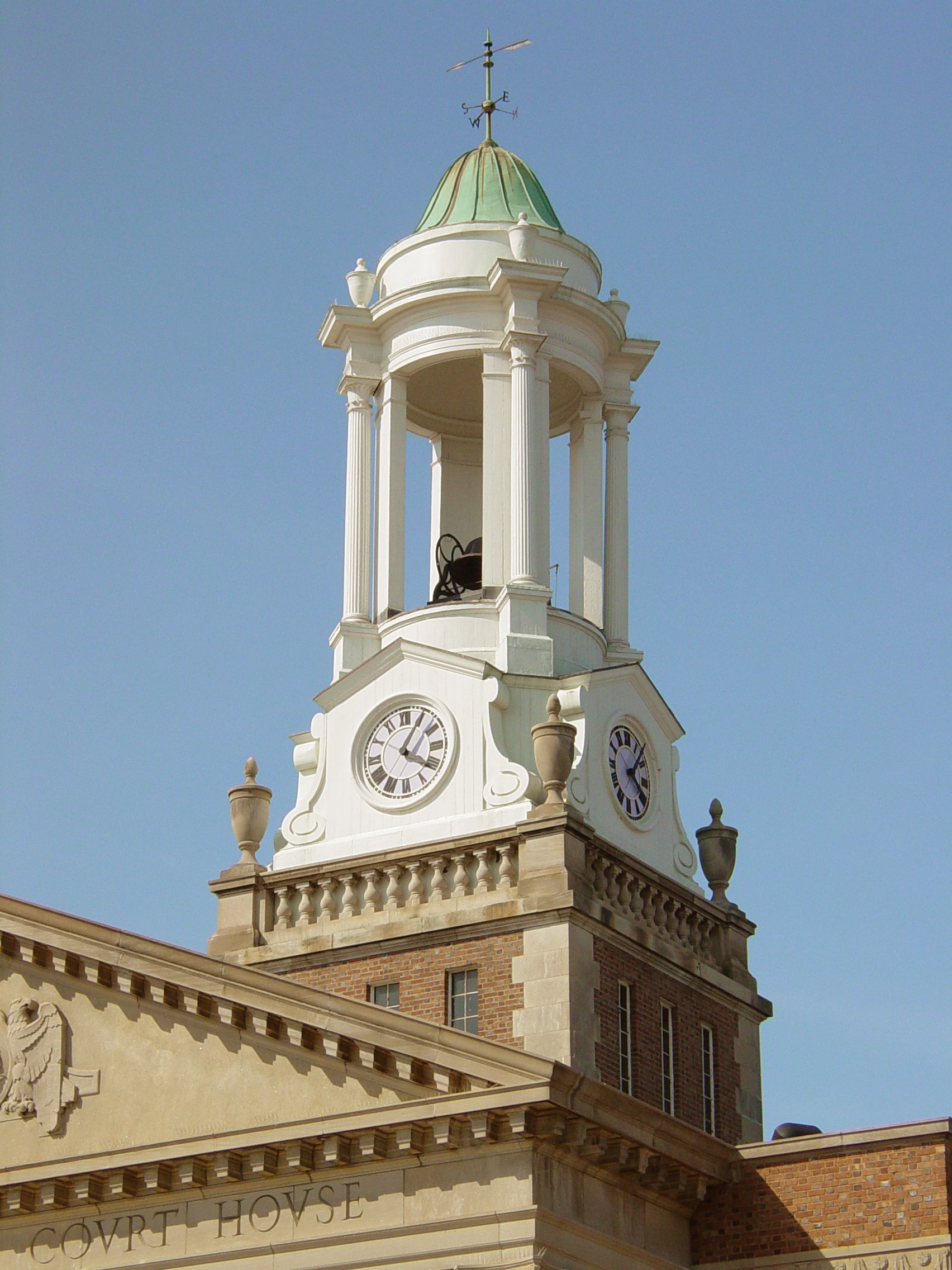 The cupola atop the Bedford County Court House in Bedford, Virginia